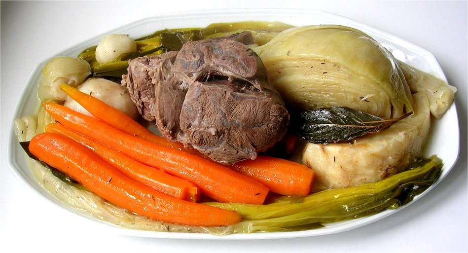 Brazzer